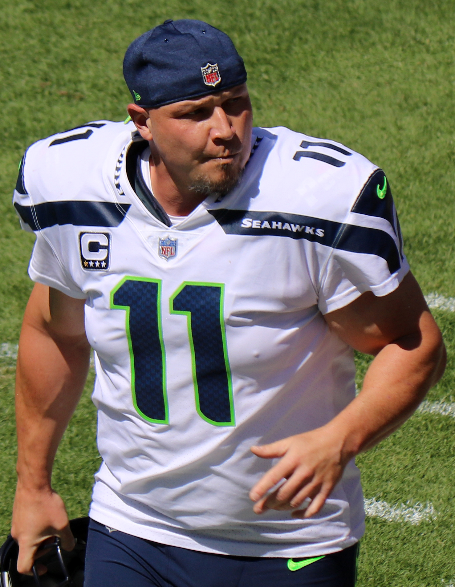 Sebastian Janikowski, a National Football League player.